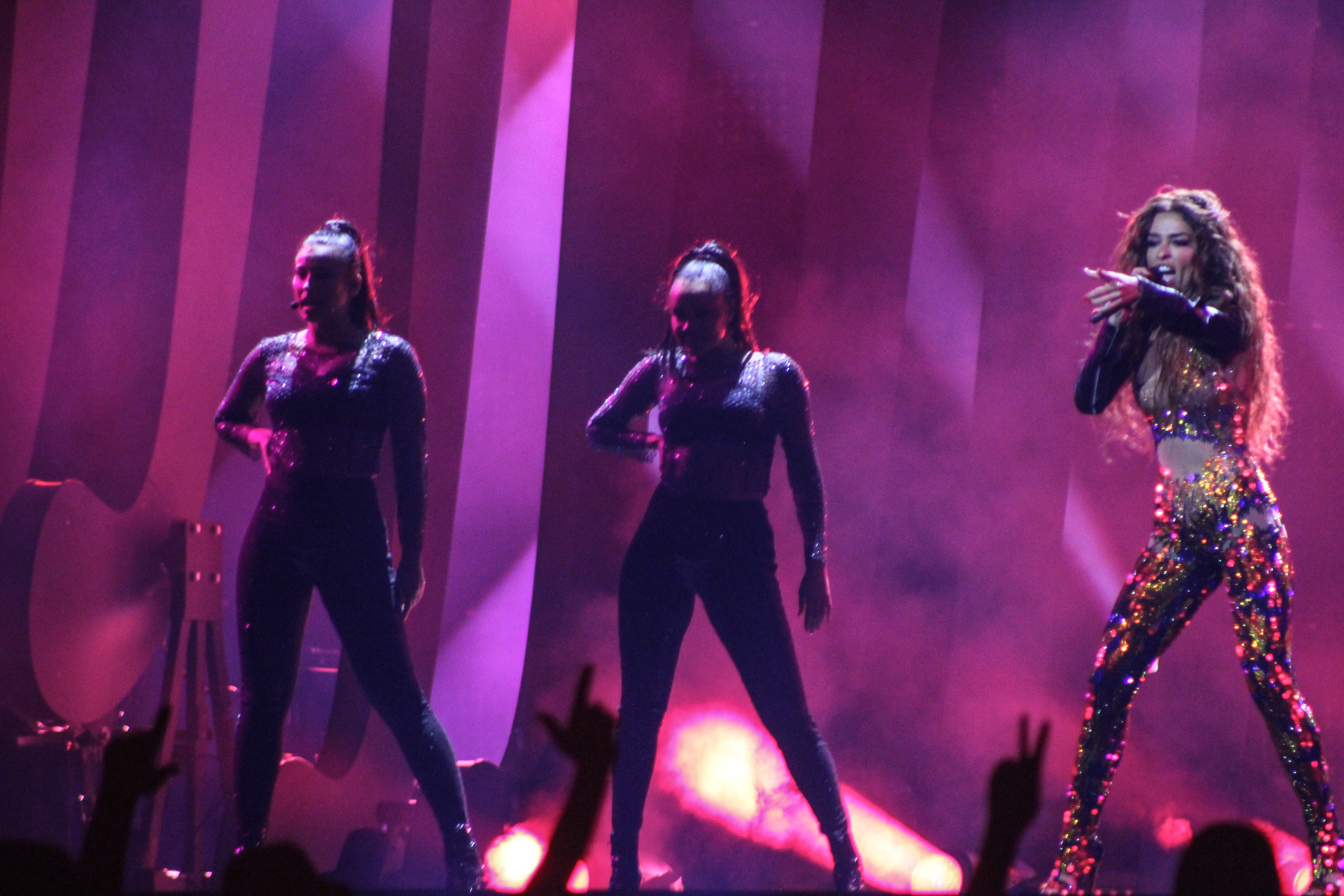 Eleni Foureira representing Cyprus with the song "Fuego" during a rehearsal before the first semi final of the Eurovision Song Contest 2018 in Lisbon.